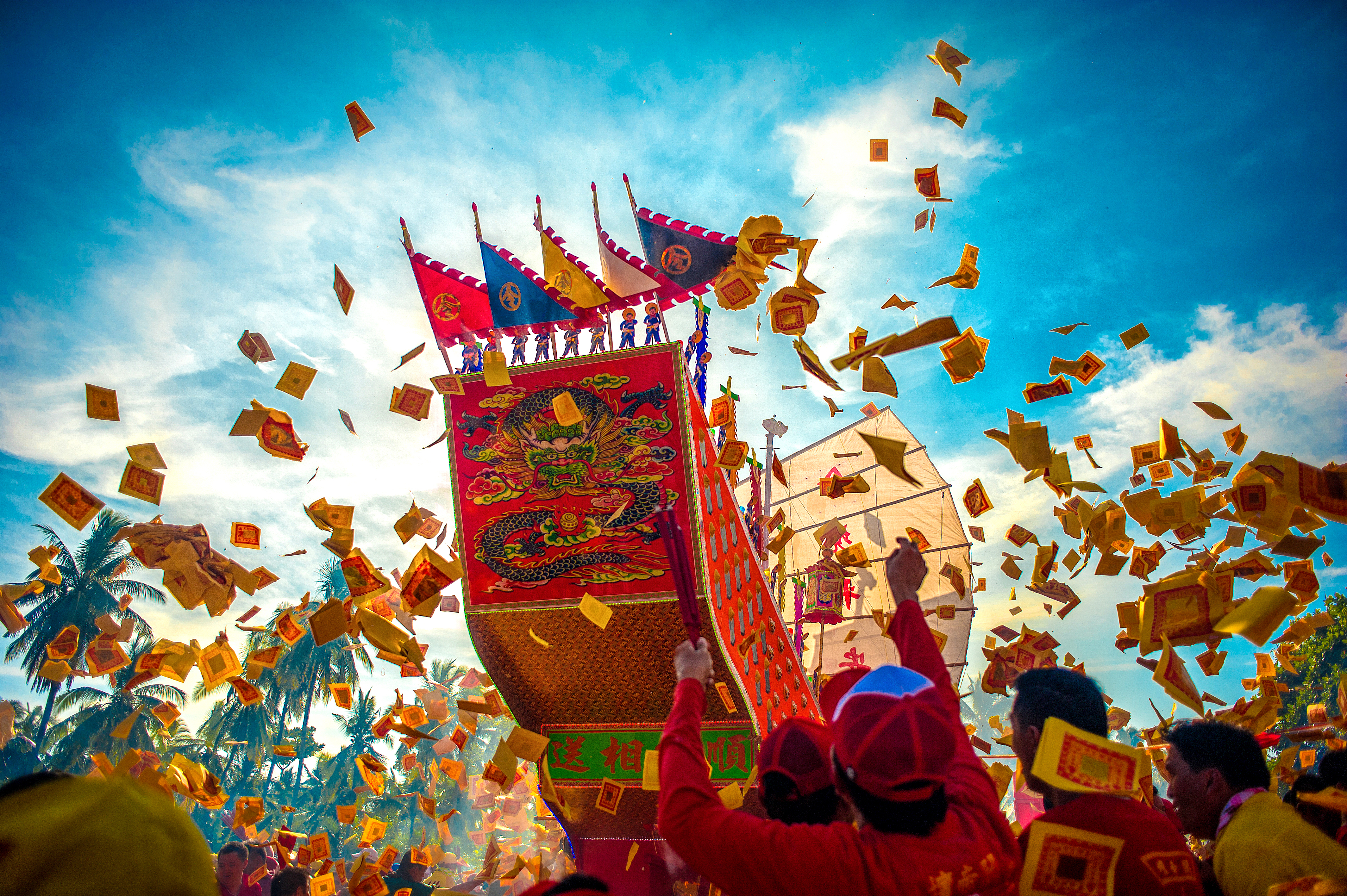 barge burn procession